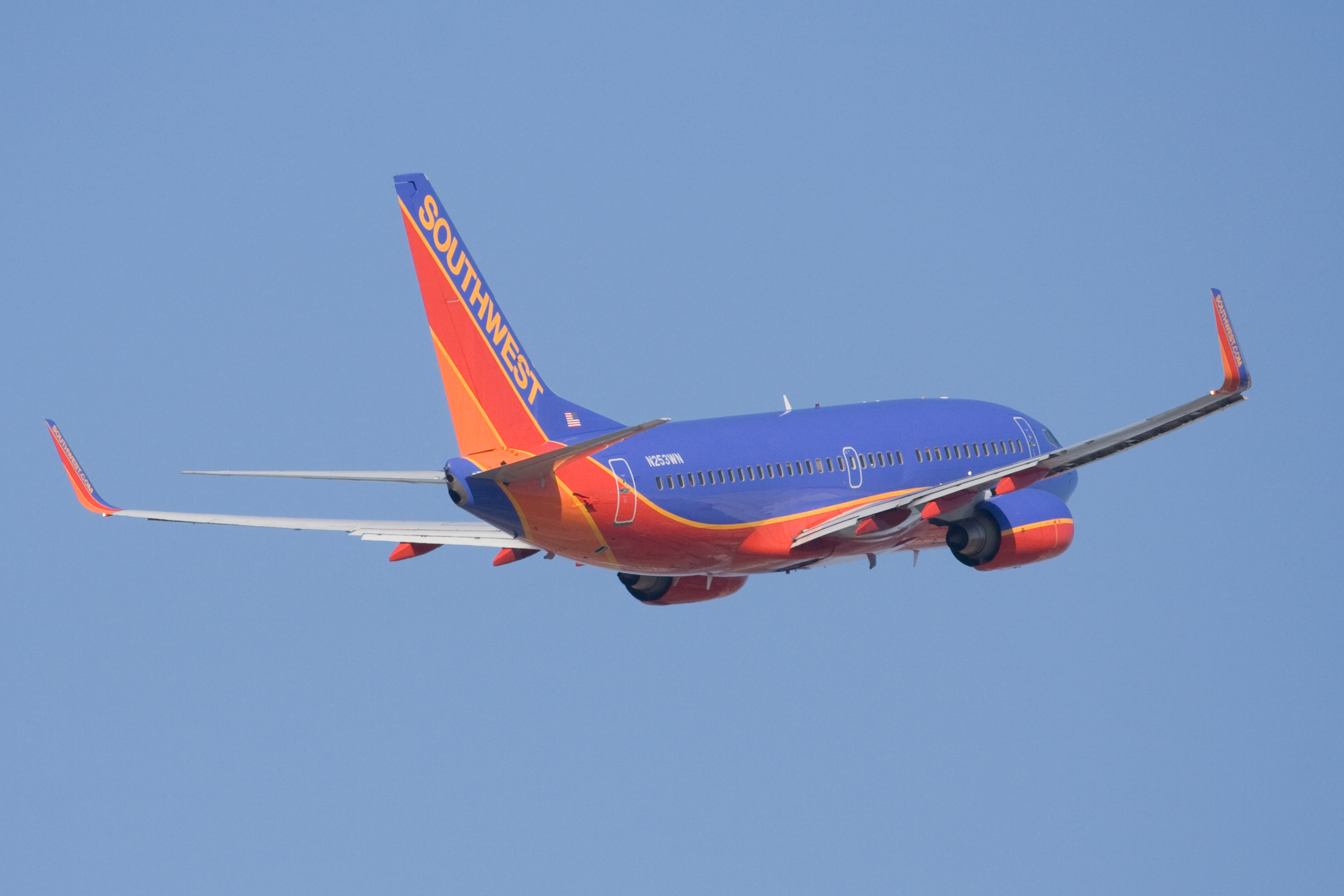 A Southwest Airlines Boeing 737-700 (N253WN) takes to the skies above San Jose International Airport, San Jose, California, United States.